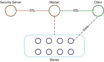 Sector/Sphere software architecture